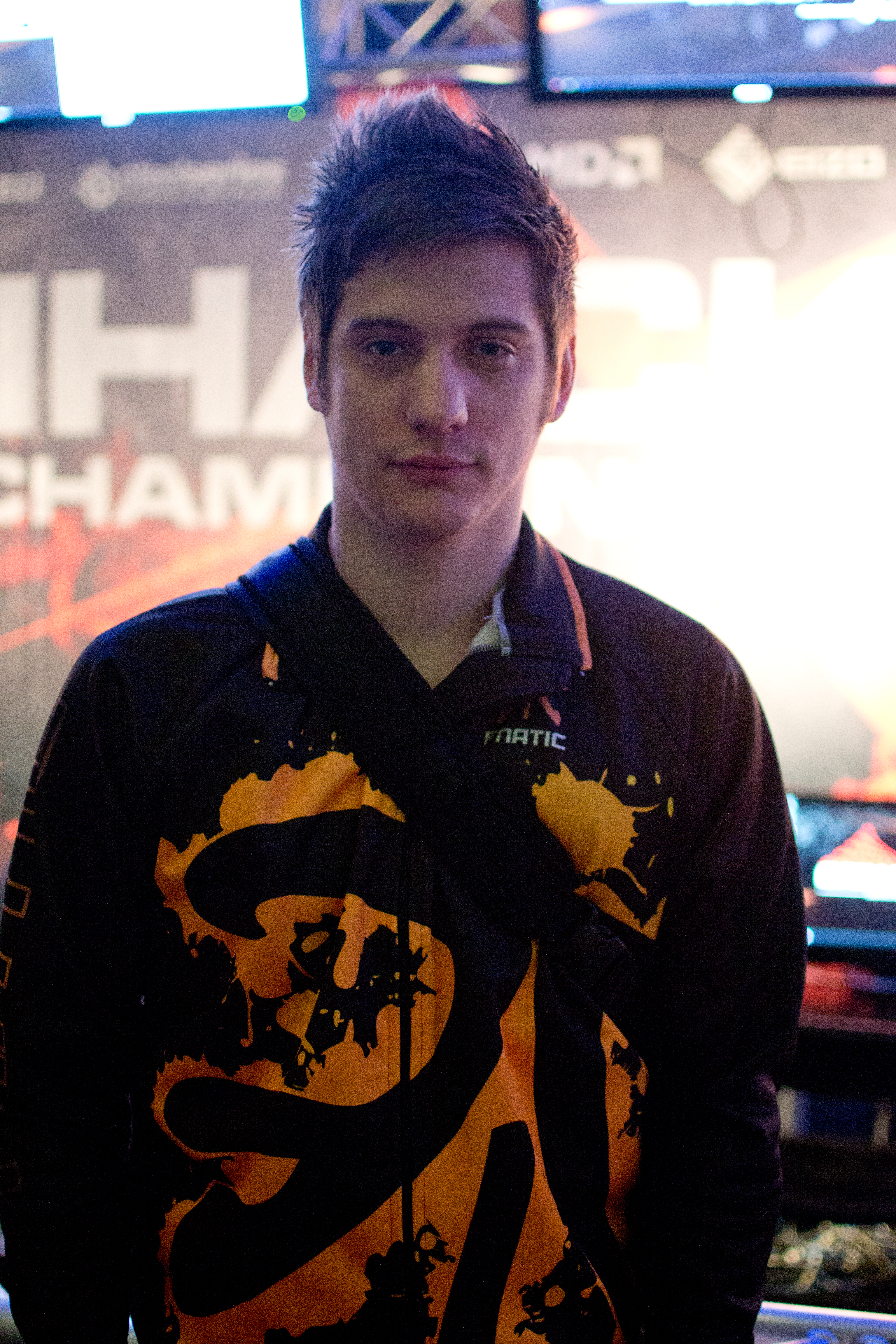 Starcraft 2 Player ToD, in Fnatic uniform